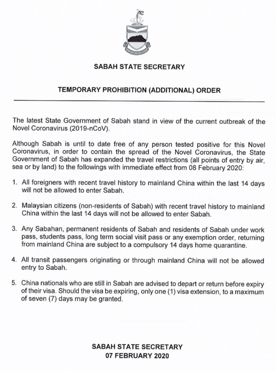 Temporary Prohibition released by the State Government of Sabah due to the Coronavirus outbreak.